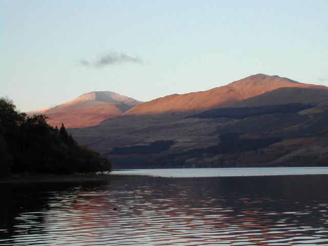 Ben Lawers & Meall Greigh. Ben Lawers & Meall Greigh as seen from the shores of Loch Tay. Acharn Point can be seen to the left of the photo.